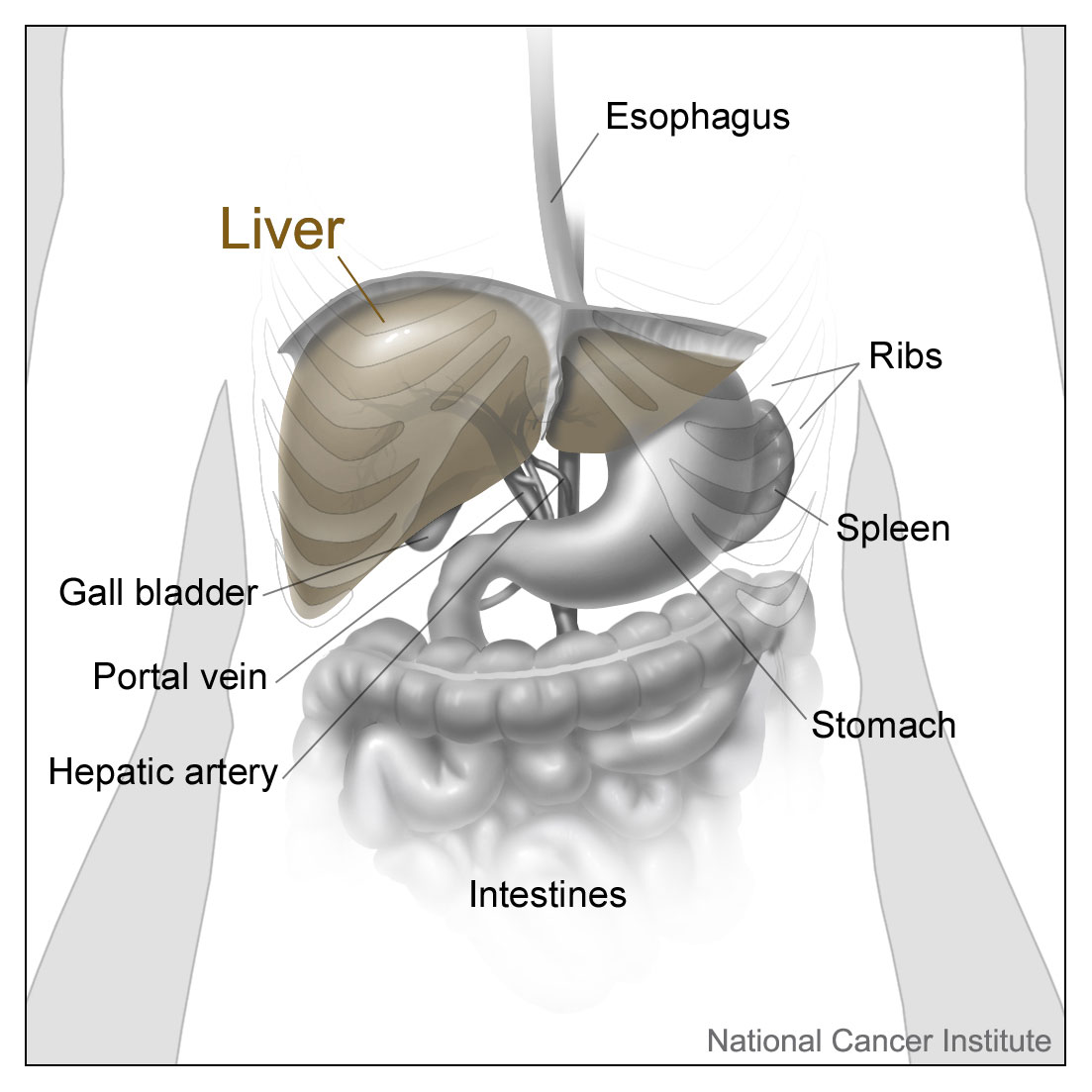 Title Liver and Nearby Organs Description The liver and nearby organs and structures (esophagus, ribs, spleen, stomach, gall bladder, portal vein, hepatic artery, and intestines). Image is included in this publication: Topics/Categories Anatomy -- Digestive/Gastrointestinal System Type B&W, Medical Illustration Source National Cancer Institute